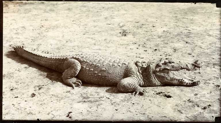 "An Mugger crocodile" Photograph taken by Herbert Ponting (1870-1935).